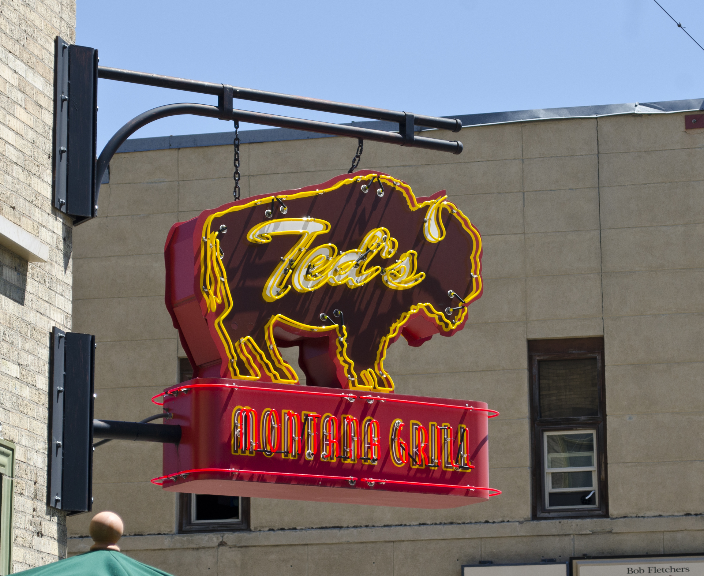 Neon sign for Ted's Montana Grill, on the Baxter Hotel in Bozeman, Montana. The restaurant chain, co-founded by media mogul Ted Turner in 2002, opened its Bozeman location in 2008. One of Turner's bison ranches is nearby.